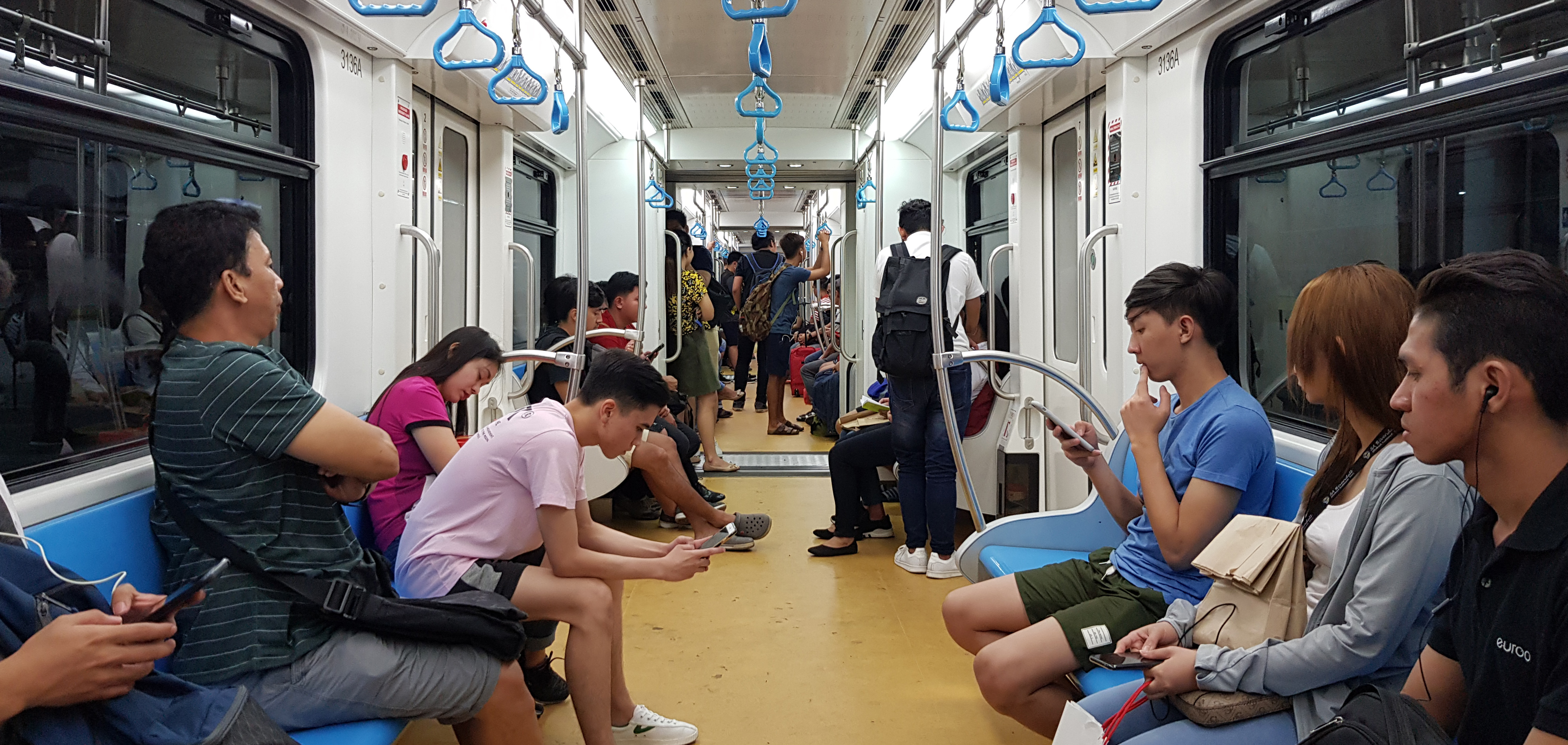 Inside a Manila Line 3 Class 3100 Train